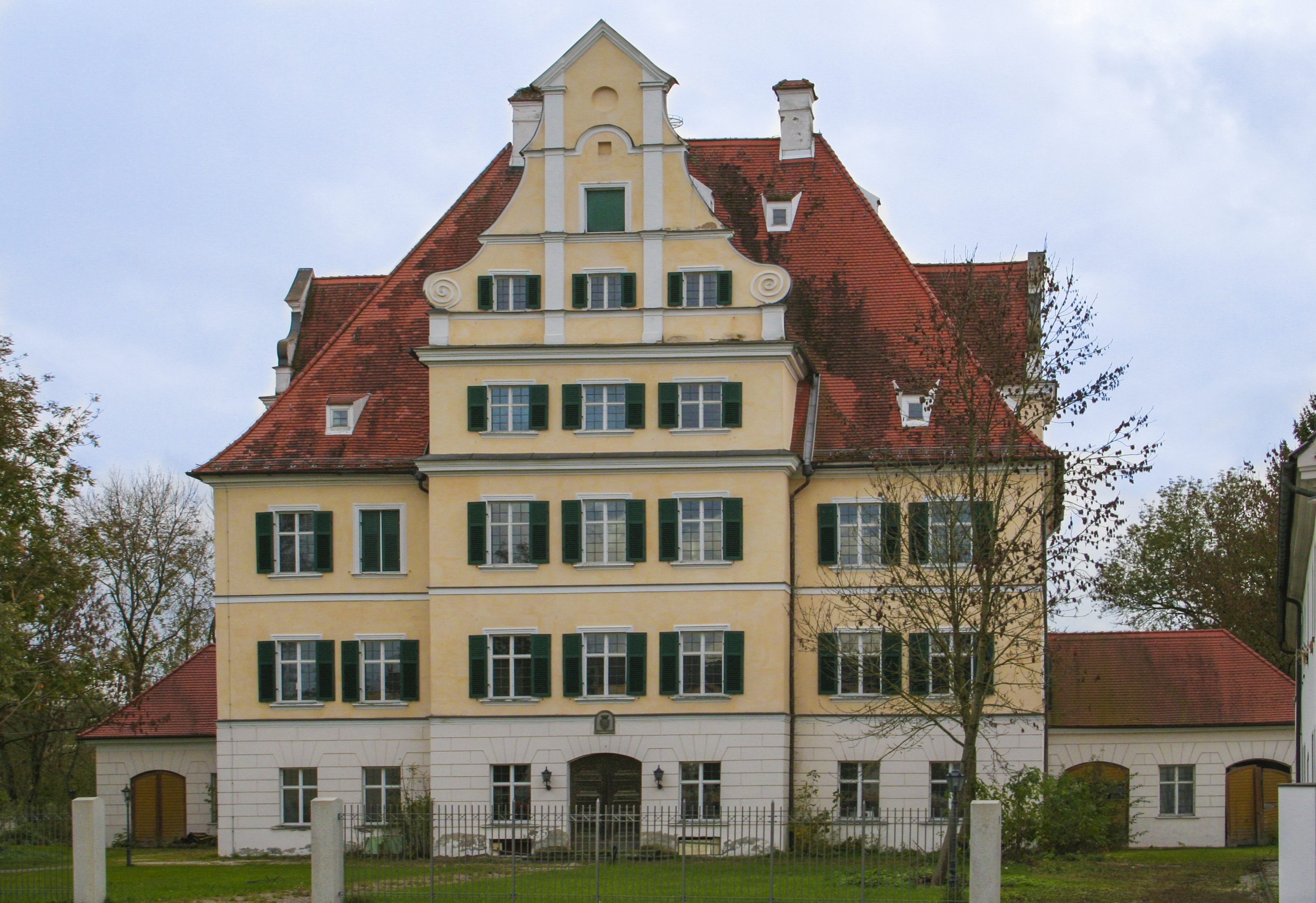 Castle of Niederraunau